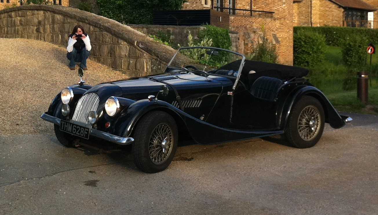 Burlington SS mk2 Kit Car